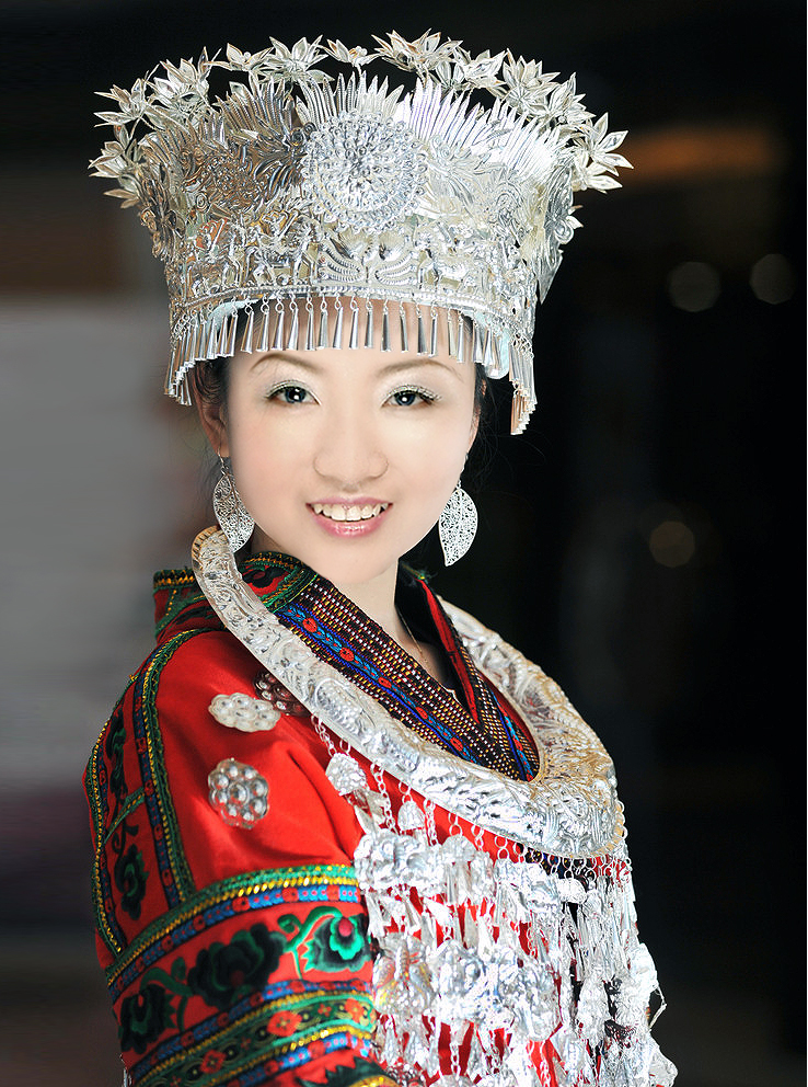 A woman wearing Miao（Hmub） clothes.